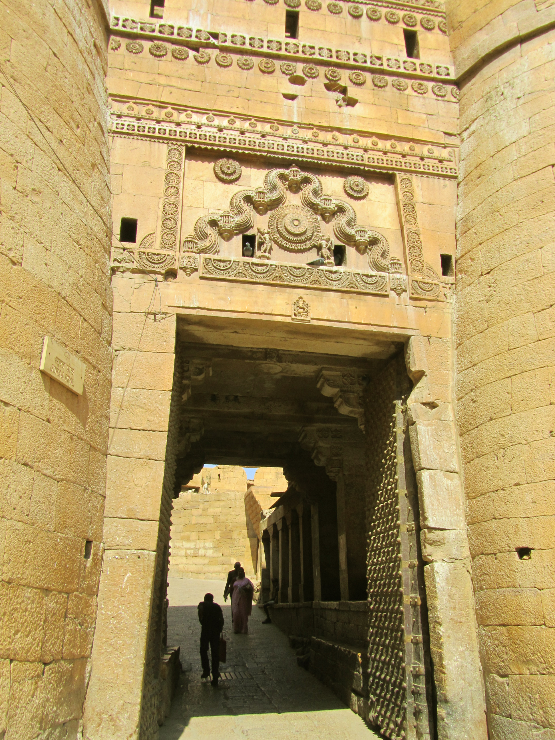 Suraj pol is one of the three gates of the Jaisalme Fort.